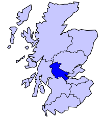 one of the former subdivisions of Scotland